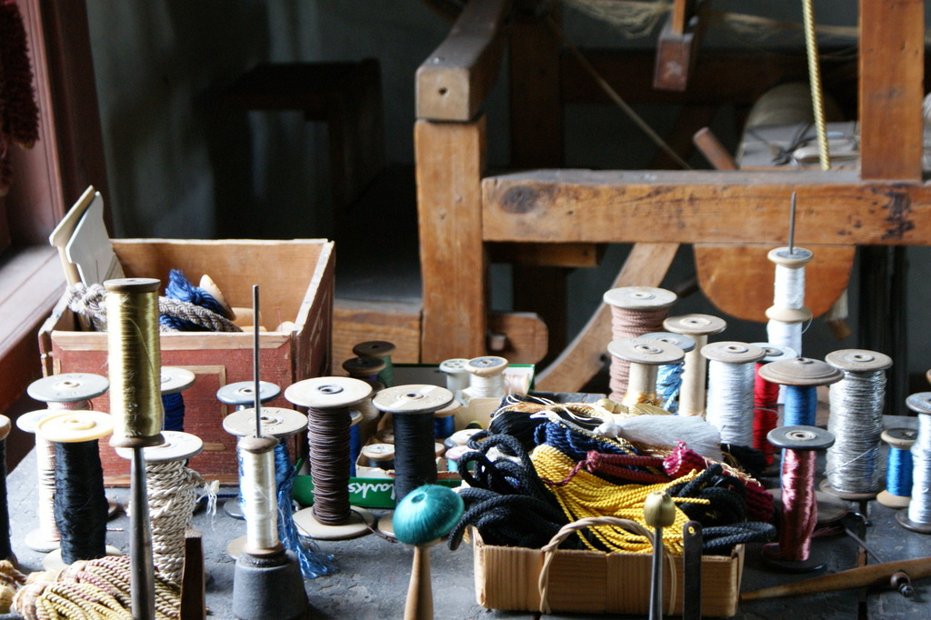 Threads at Turku handicraft museum